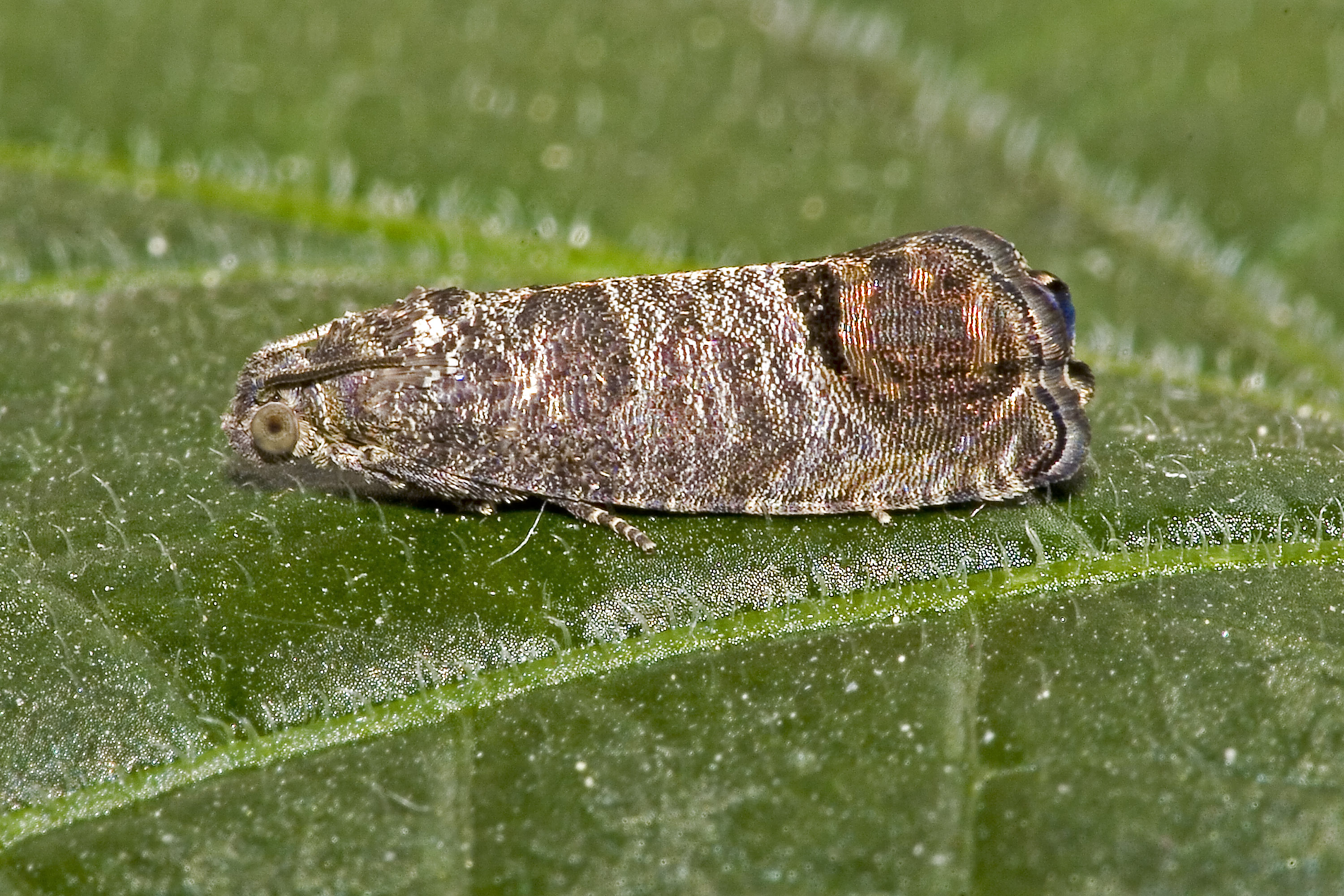 Codling moth, Cydia pomonella